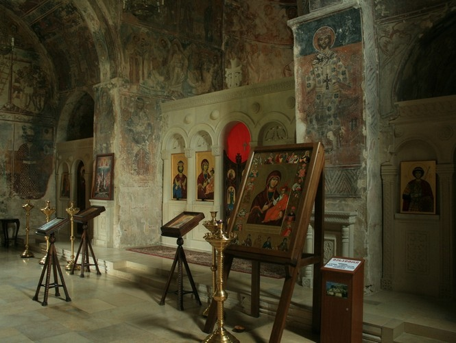 Khobi Monastery, Georgia. The central bay interior.